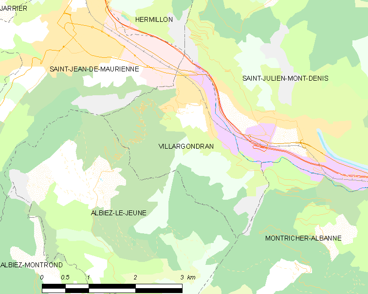 Map of French municipality Villargondran